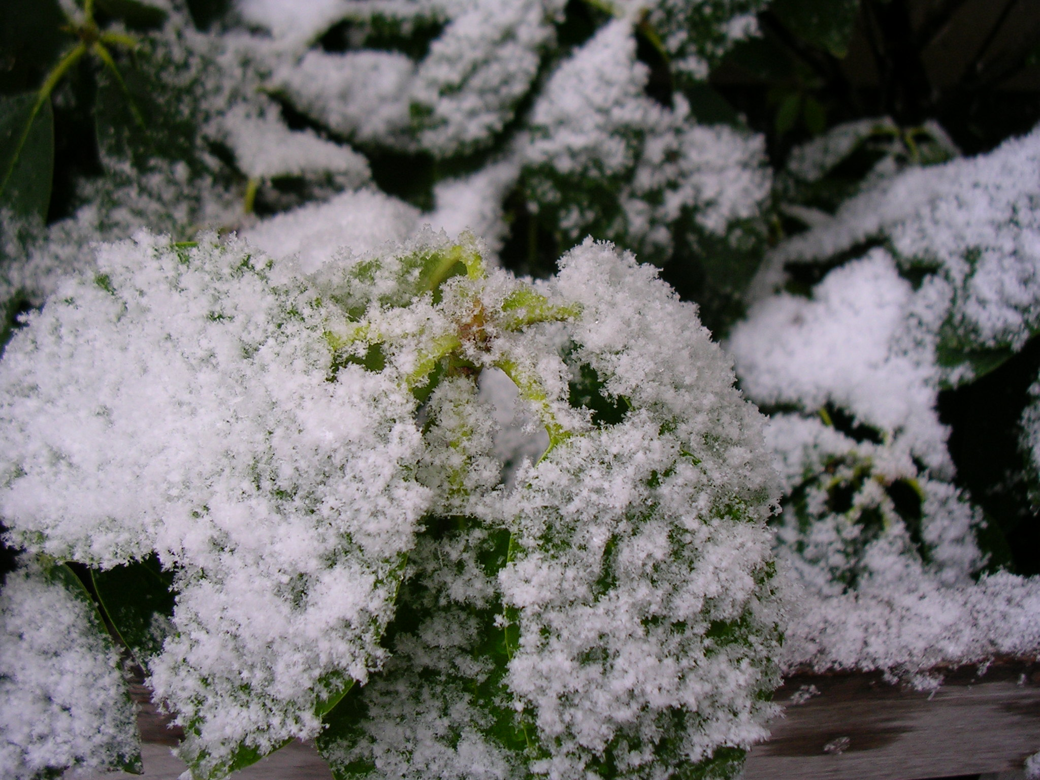 Close photograph of snow flakes on a leaf in an early Boston snowstorm